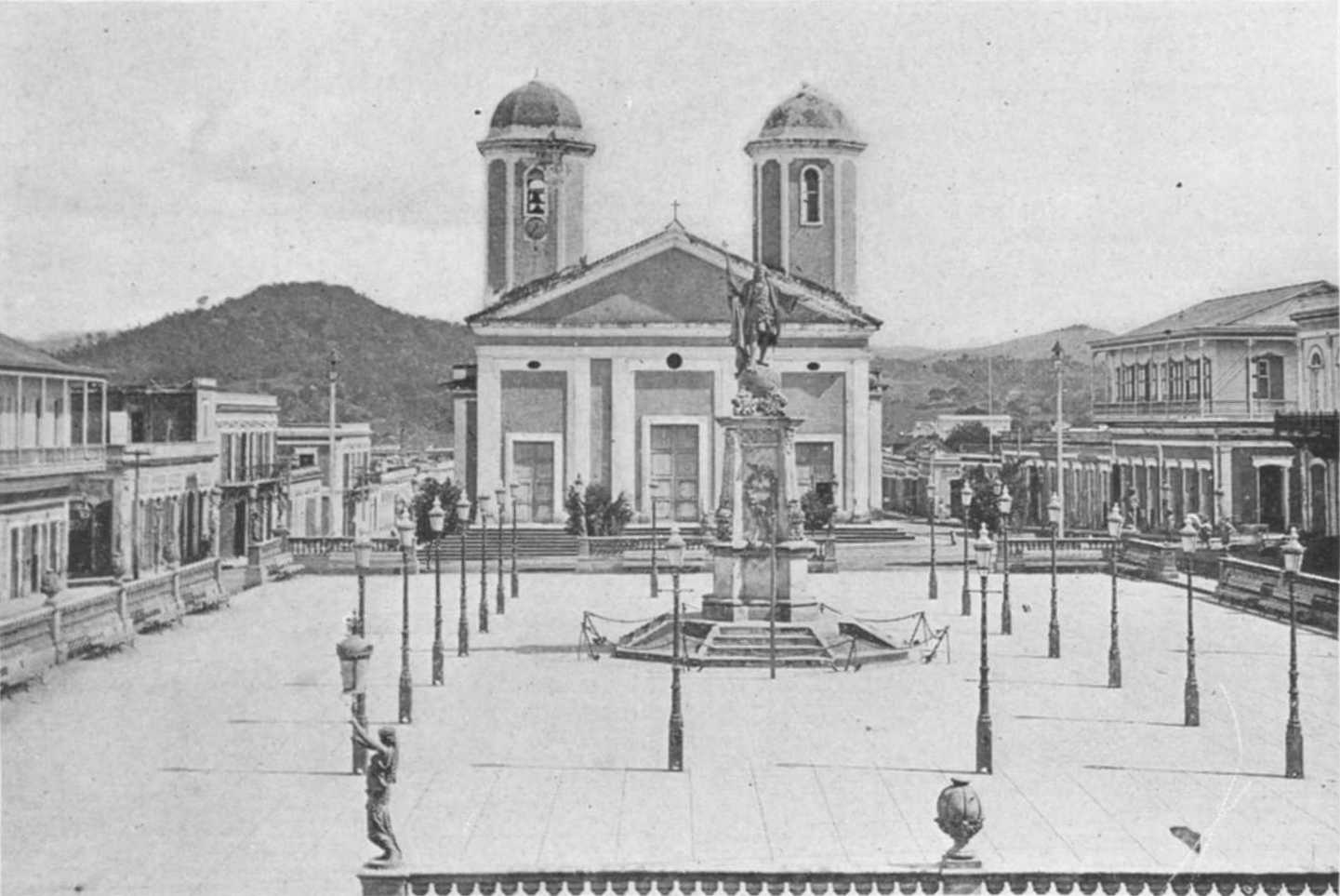 The Plaza Colón and Church of Nuestra Señora de la Candelaria. Caption in original publication: The Plaza Principal in Mayaguez, looking toward the Church.